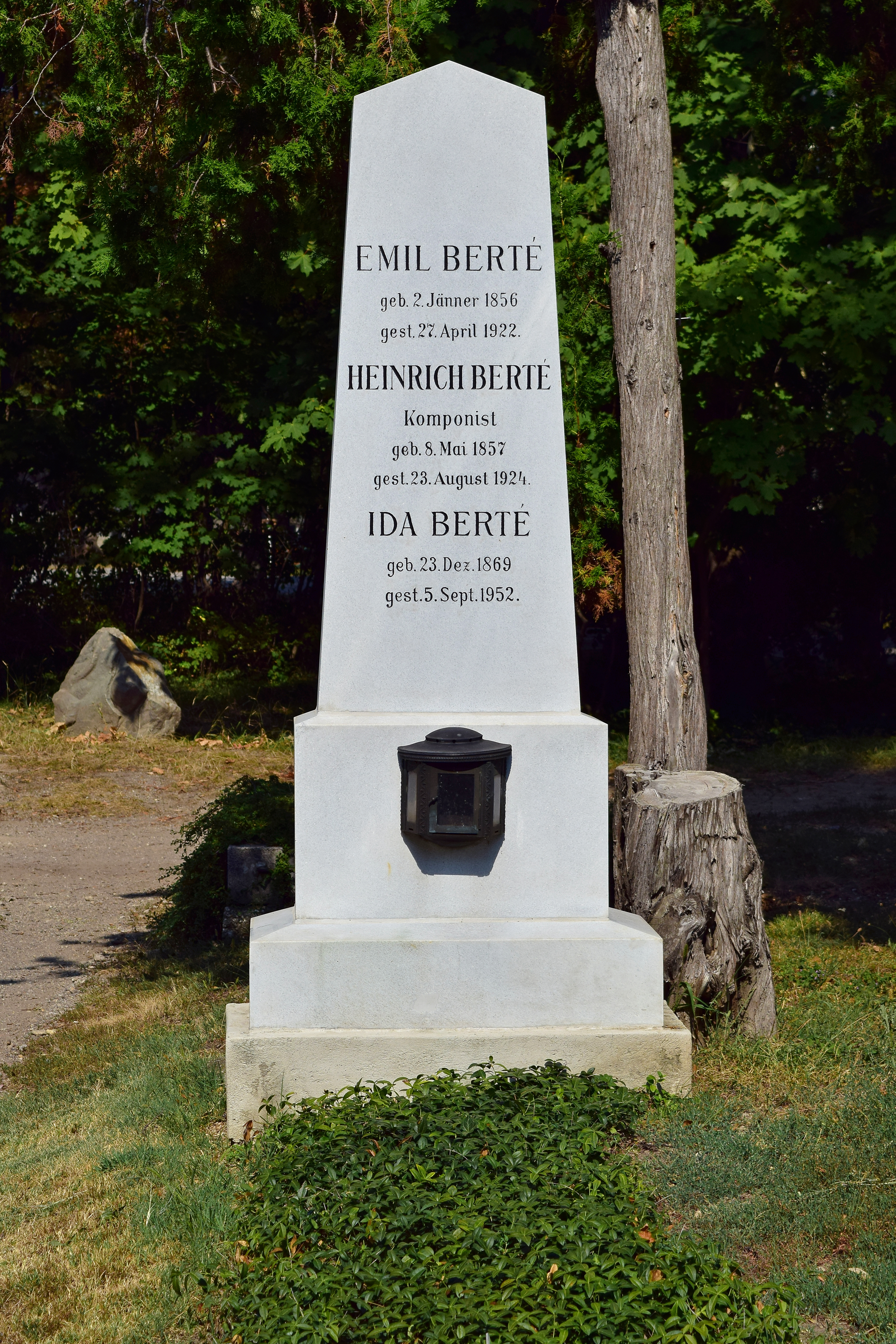 Grave of honor of the composer Heinrich Berté at the Wiener Zentralfriedhof